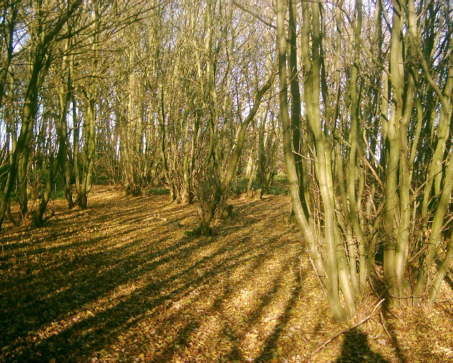 Coppicing. This is a section of coppice within Langley Wood. The wood is accessible from the adjacent footpath.